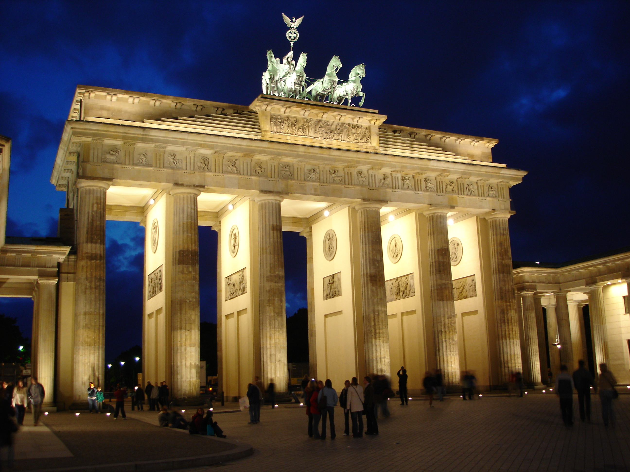 Brandenburger Tor in late dusk